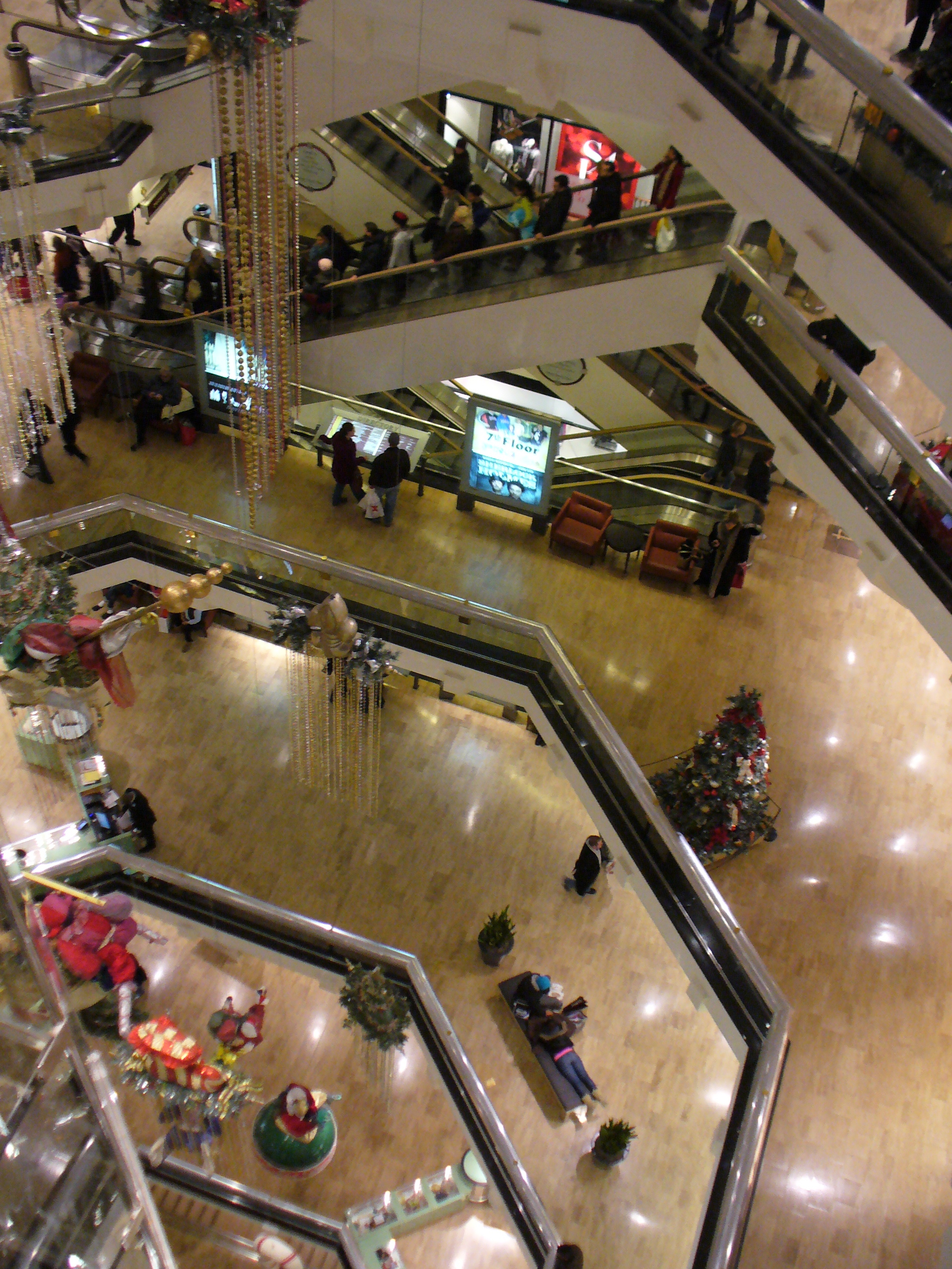 This is a photograph of the Water Tower Place mall in Chicago, IL. It has eight levels and opened in 1975.